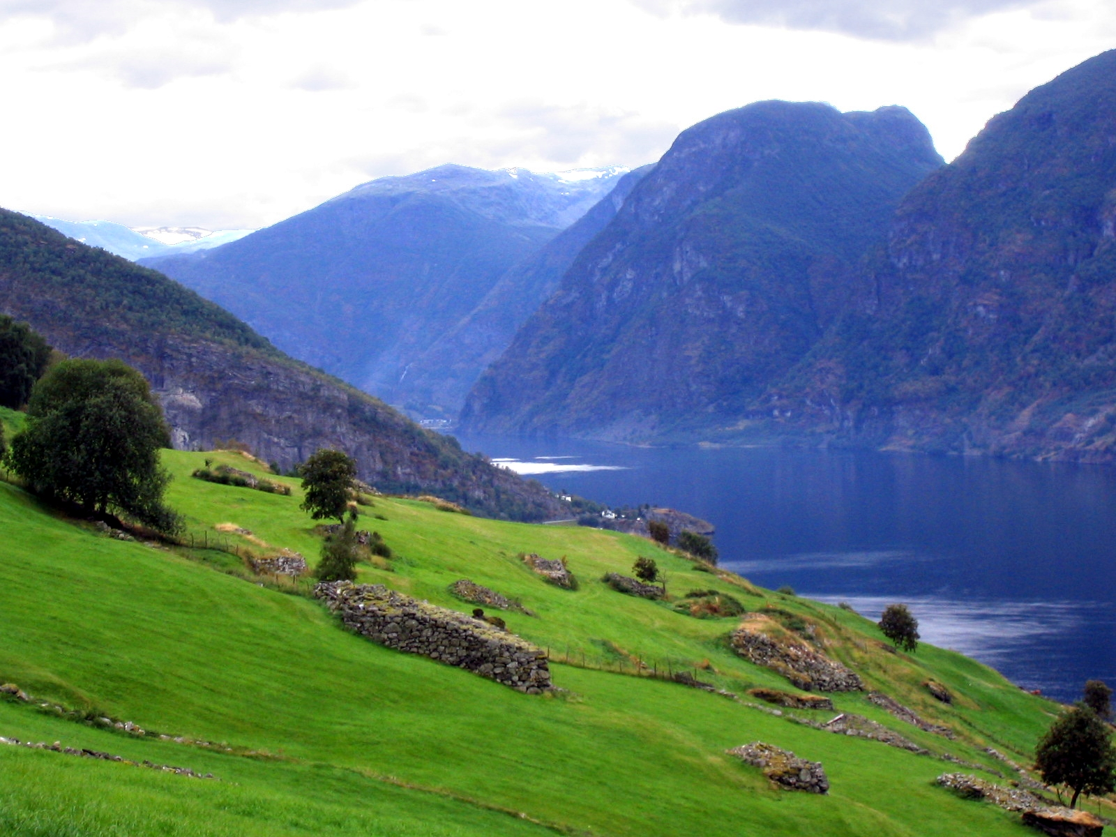 Old mountain pass from Aurland to Lærdal (above theLærdalstunnelen), view over Aurland